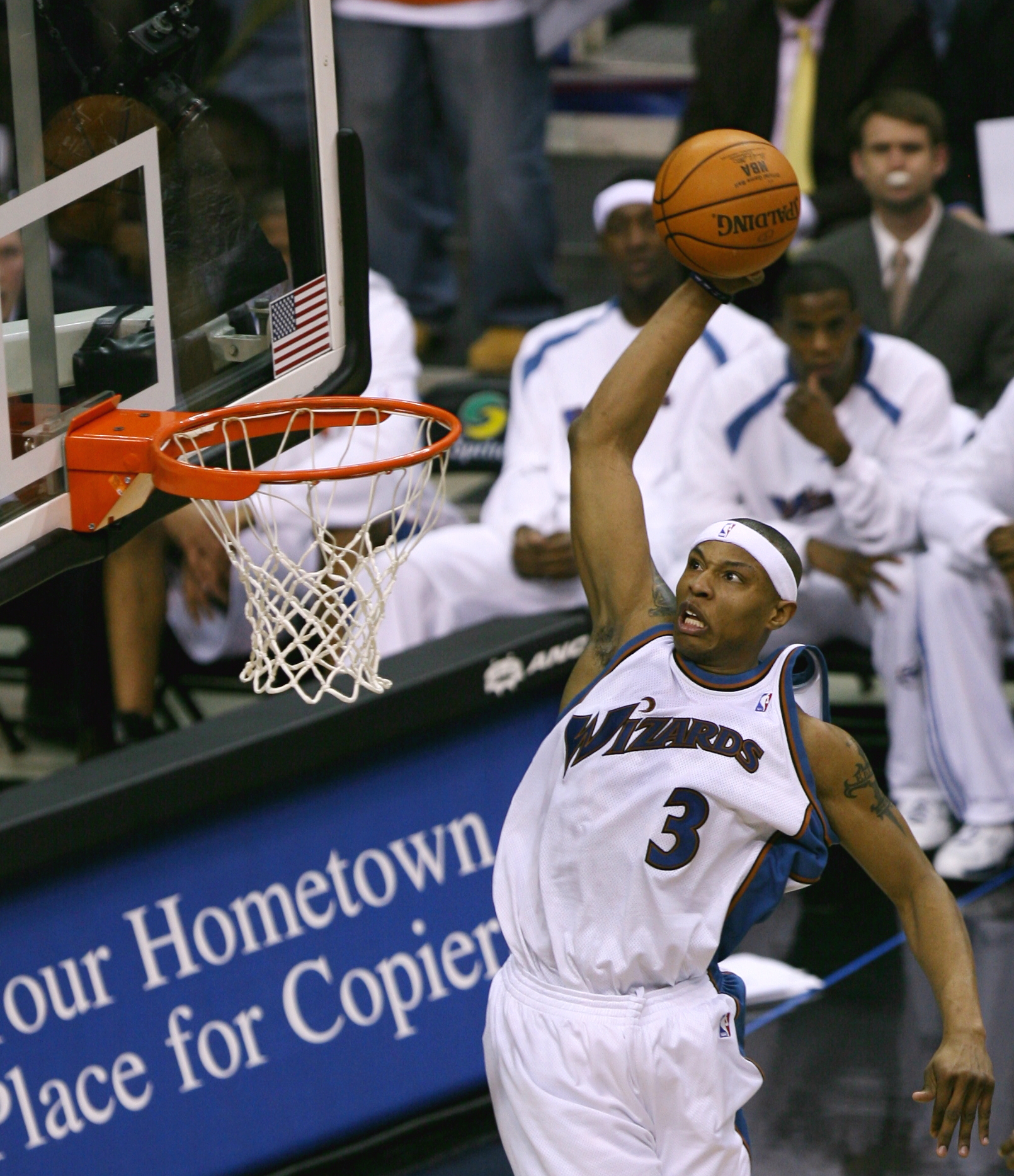 Caron Butler, Washington Wizards, 2007–08